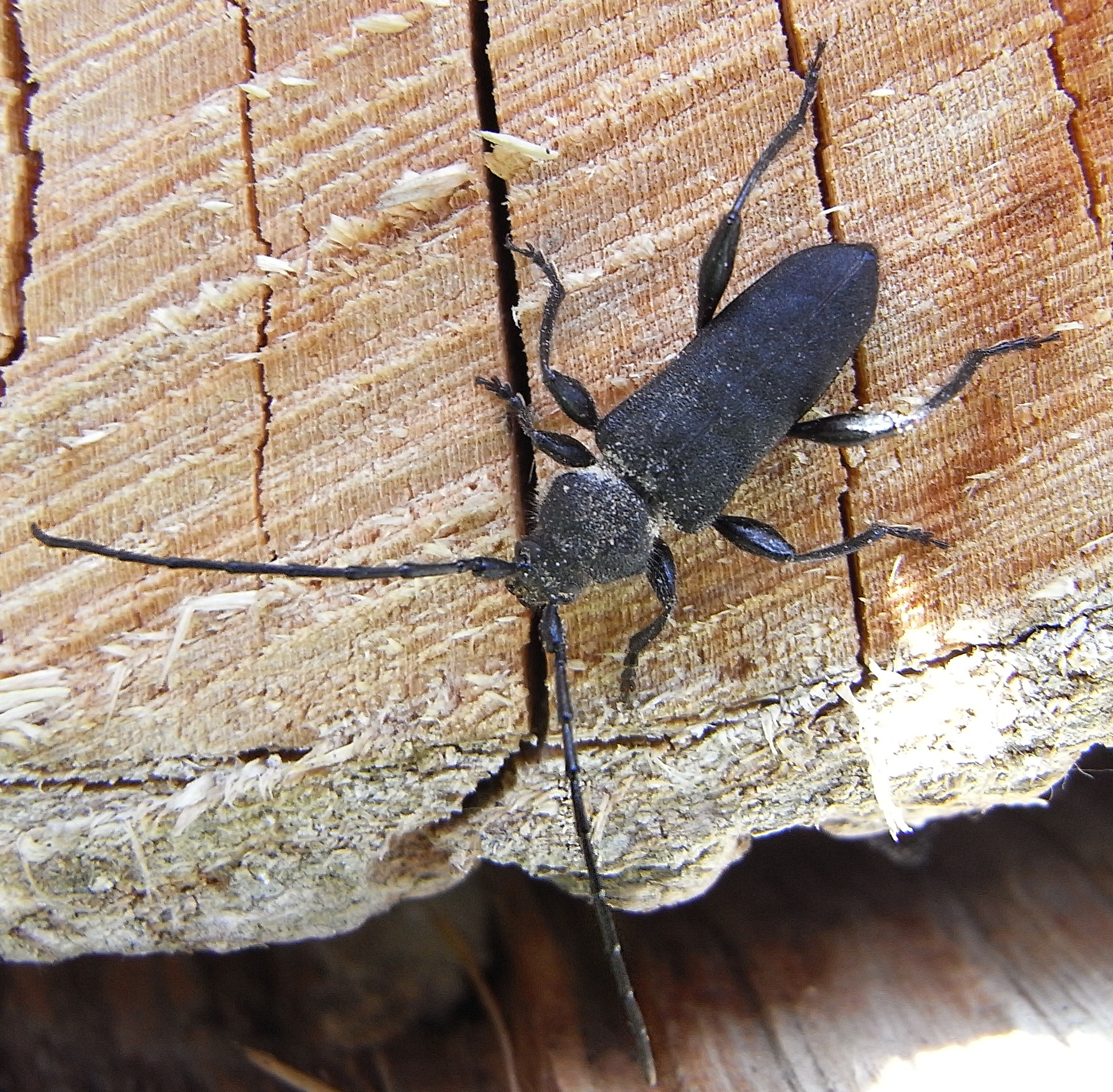 Ropalopus macropus from Hungary, south of Harkany, at 2010-05-06 Ricoh R8